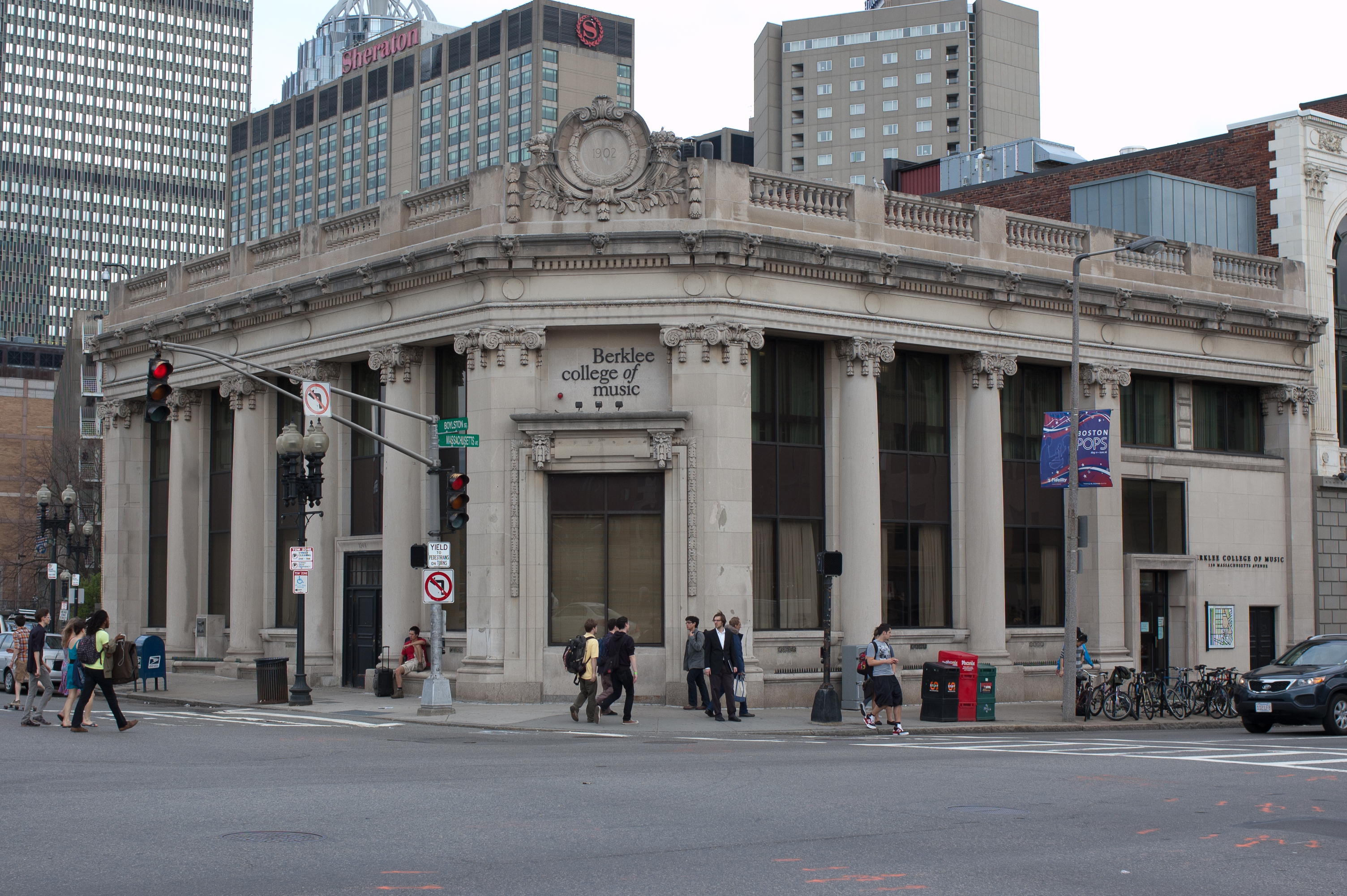 The Berklee College of Music classroom building at 130 Massachusetts Avenue, Boston, Massachusetts.